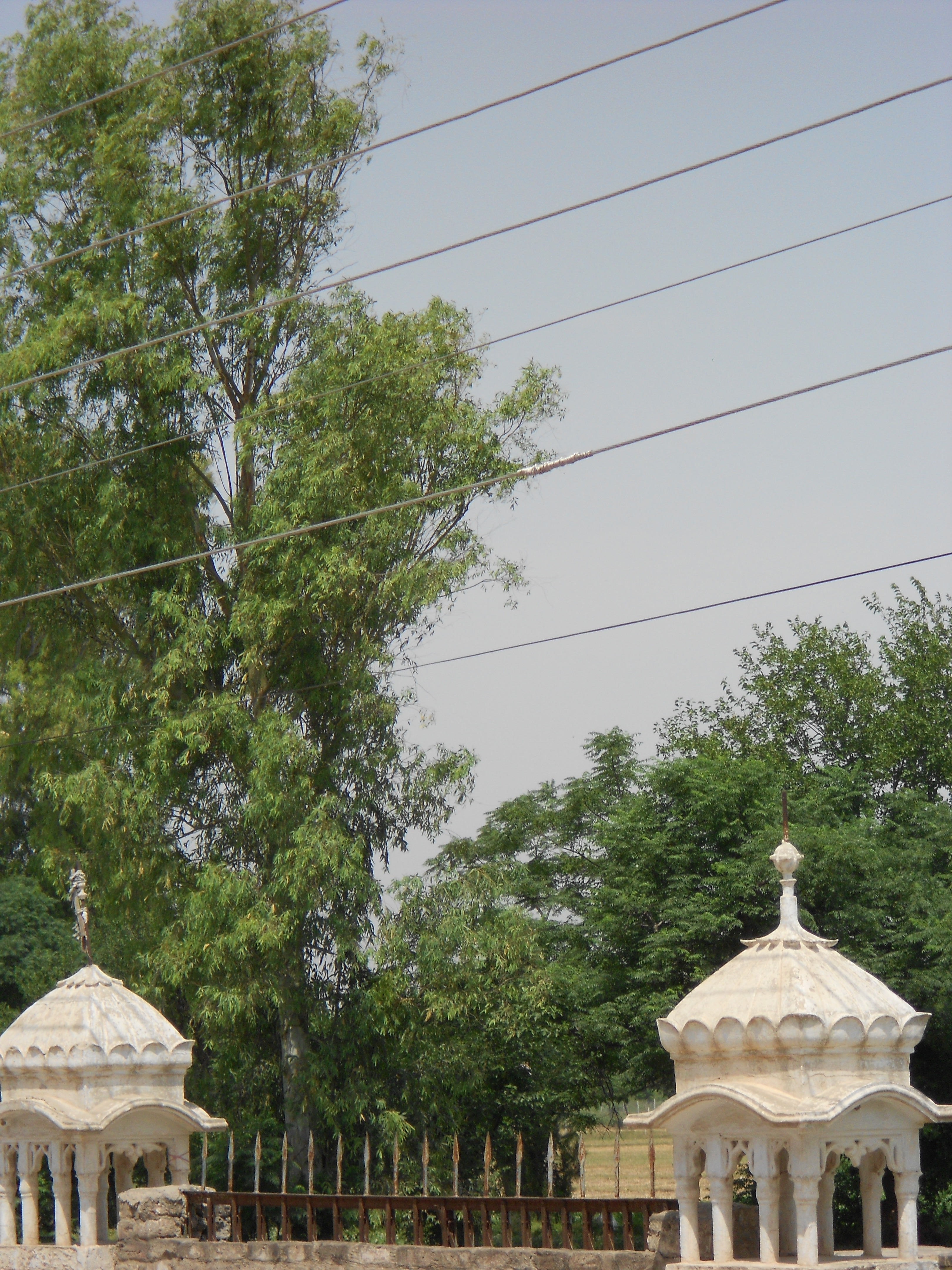 trees in old bungalow background, in Pindi Gheb, Pakistan